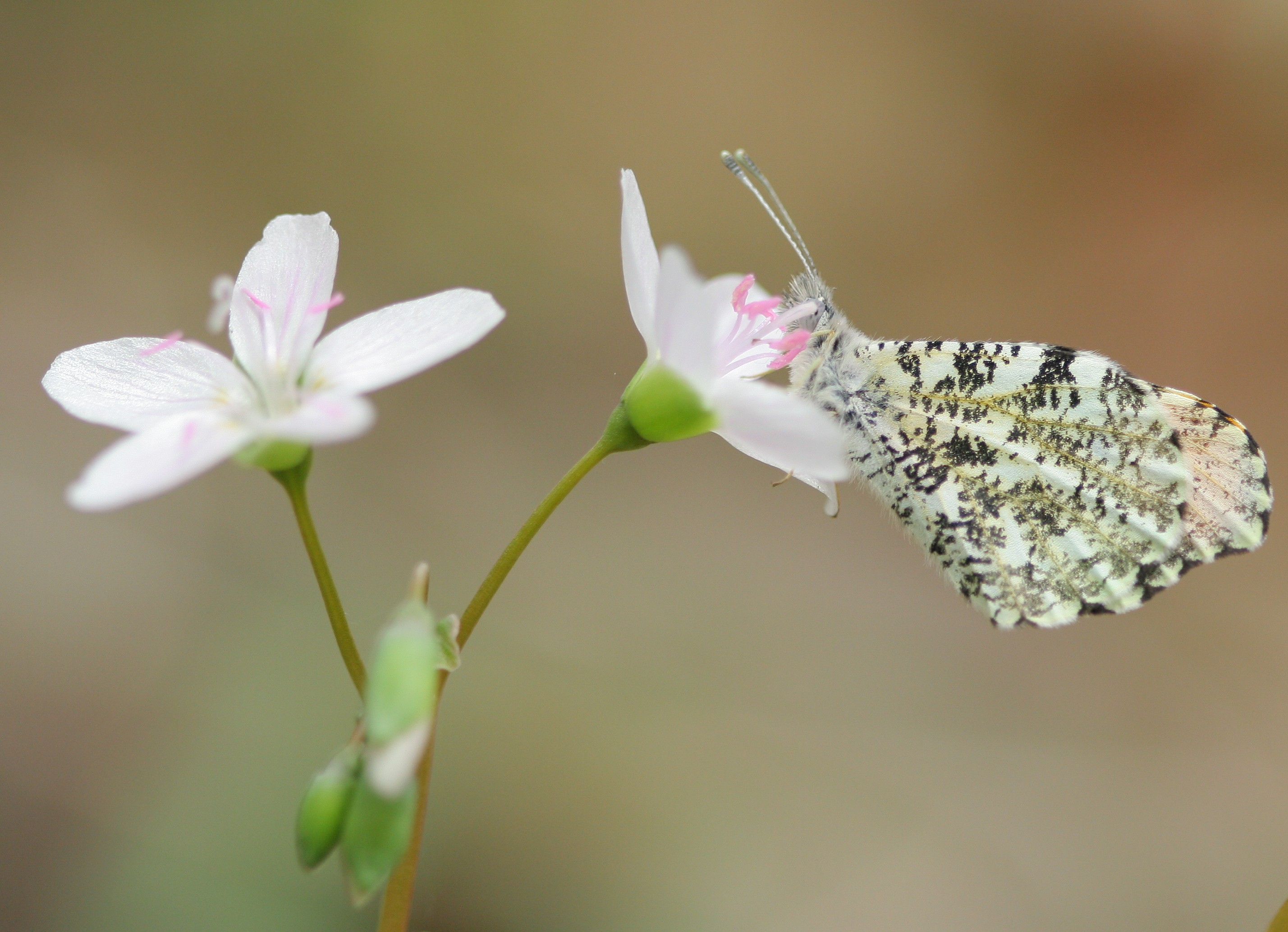 Male Falcate Orangetip (Anthocharis midea) nectaring on Eastern Spring Beauty (Claytonia virginica)